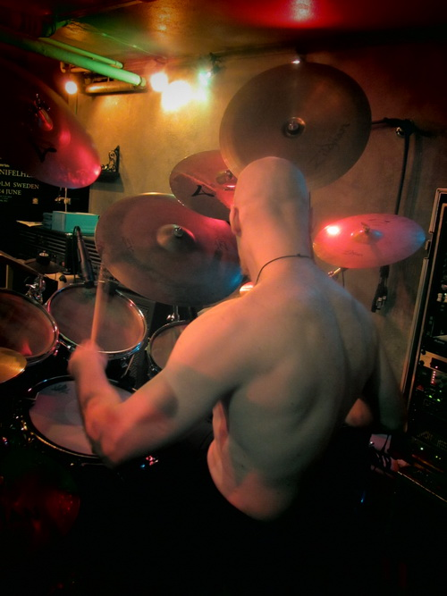 Tomas Asklund in Monolith Studio, 2012